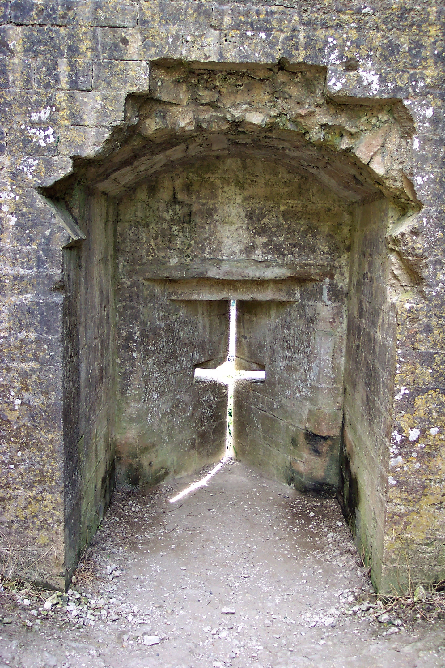 Window (arrow slat) at Corfe Castle